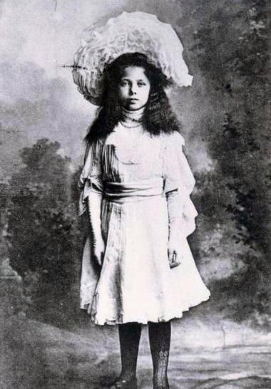 This photograph of Princess Elisabeth of Hesse dates from 1902 or 1903. It was published on postcards prior to the child's death in November 1903 and the image was also featured on memorial postcards published after her death. I uploaded this photo from a posting at Because of its age, I think it's likely in the public domain. If I'm mistaken, please delete the photo immediately.